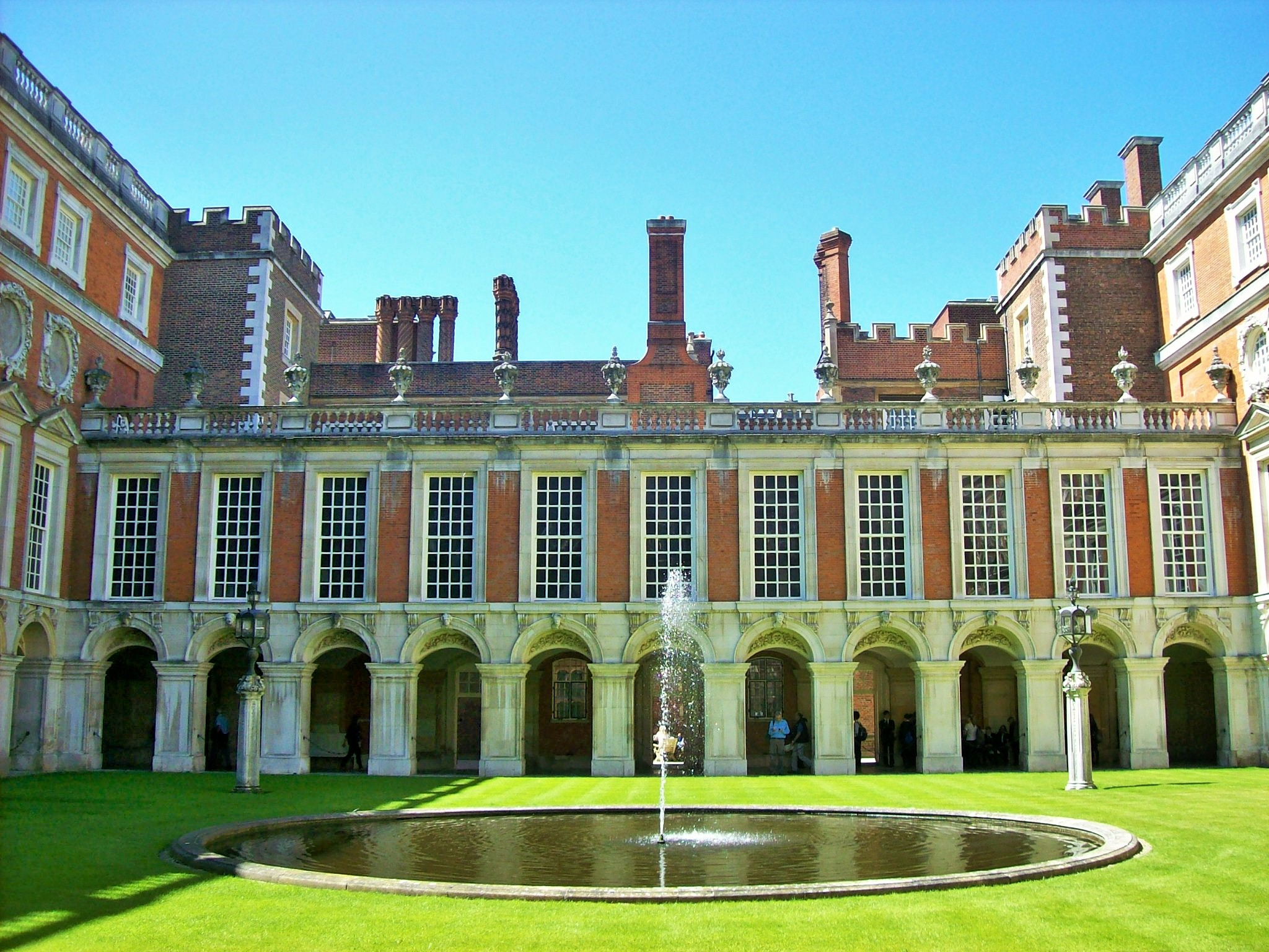 Fountain Court, Hampton Court